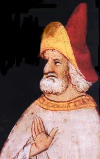 Hassan-i Sabbah, leader of the Assassins.